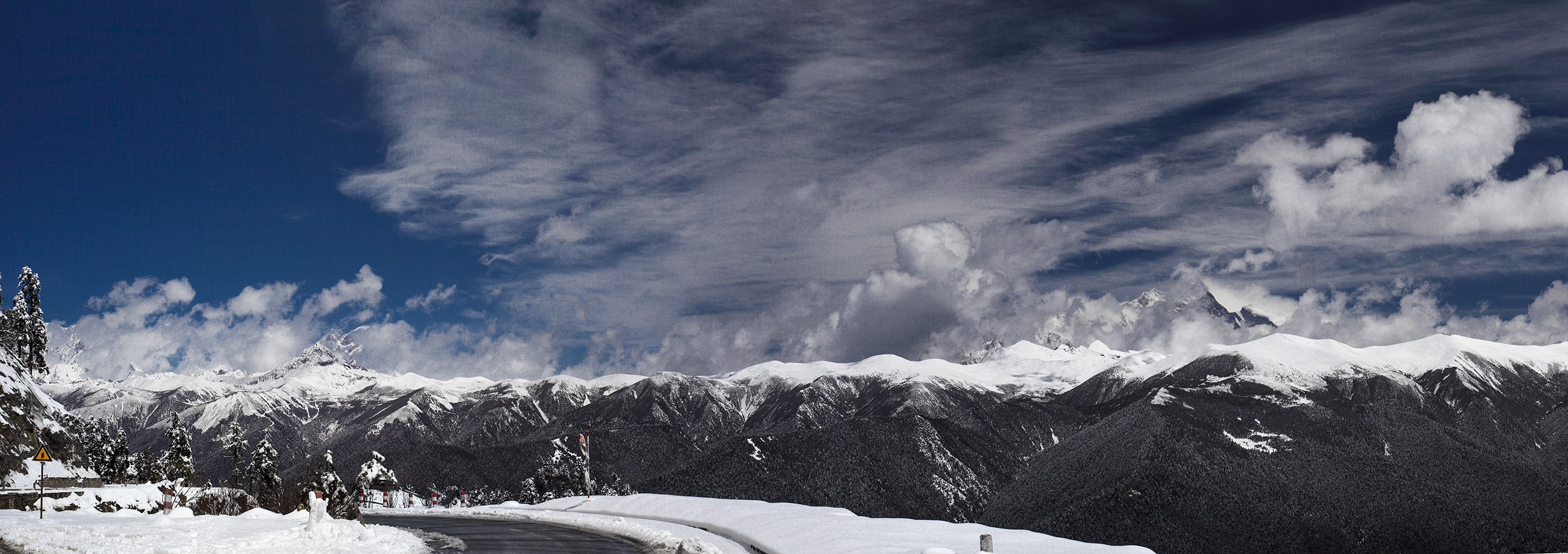 Gyala Peri And Namcha Barwa